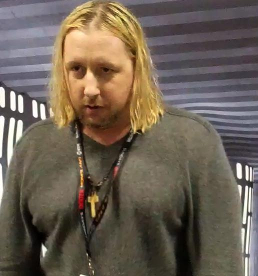 NYC Comicon (2011)